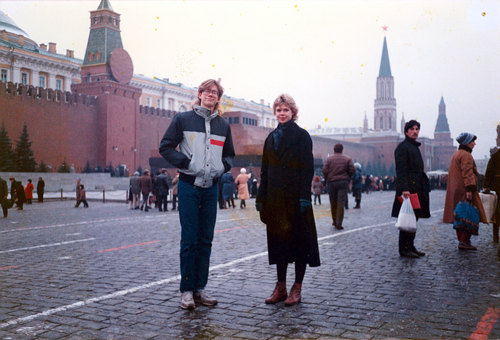 Red Square, Moscow, 1985